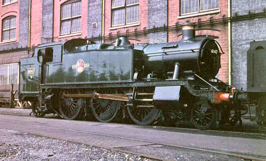 GWR 6100 Class 2-6-2T 6147 at Swindon Works after overhaul